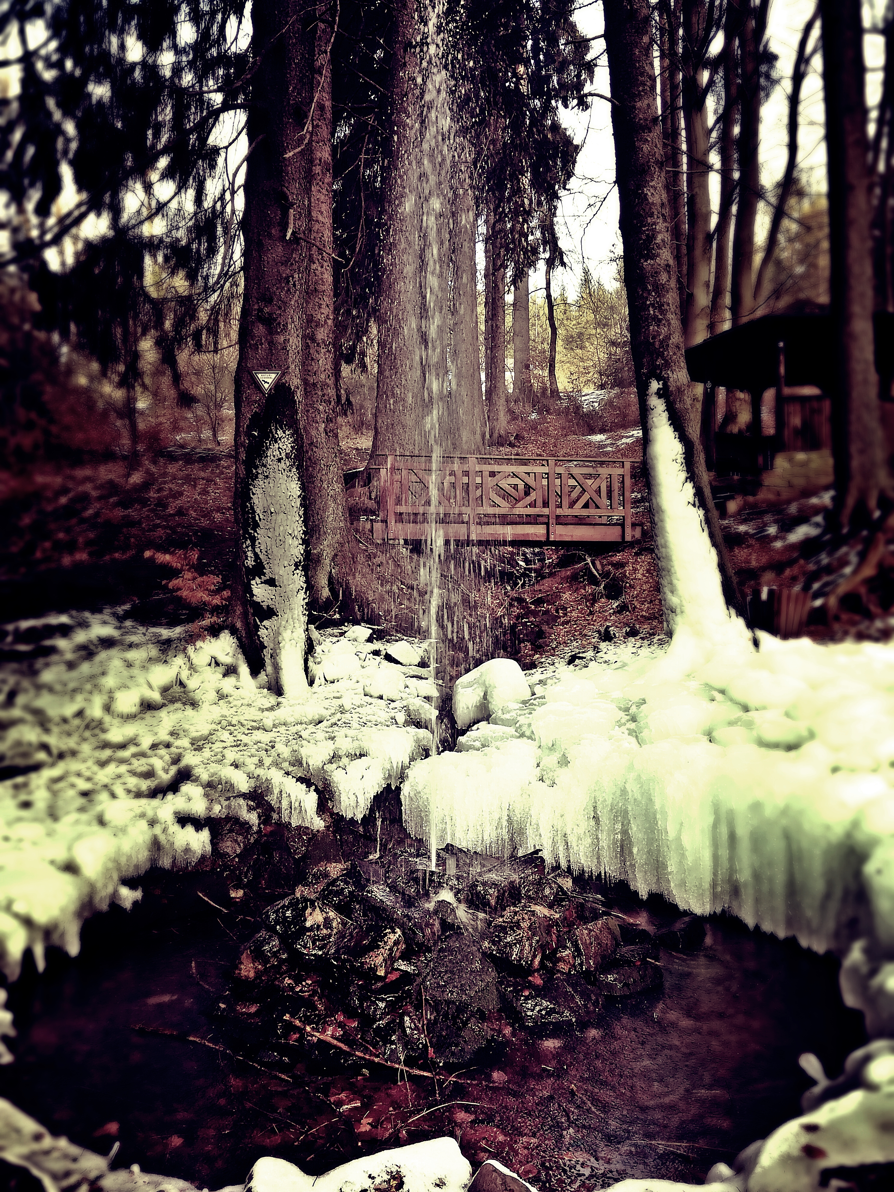 Sigurd fountain in Grasellenbach in the south of Hesse.